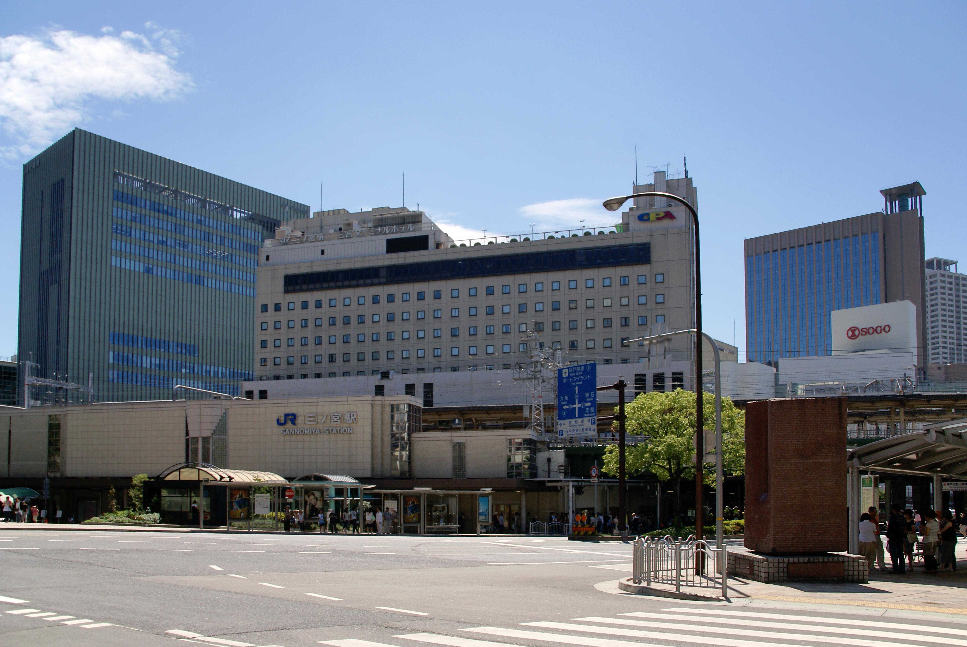 JR Sannomiya Station in Kobe, Hyogo prefecture, Japan